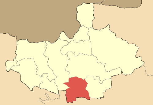 Locator map of Pikrolimnis municipality (Δήμος Πικρολίμνης) at Kilkis perfecture, Greece.